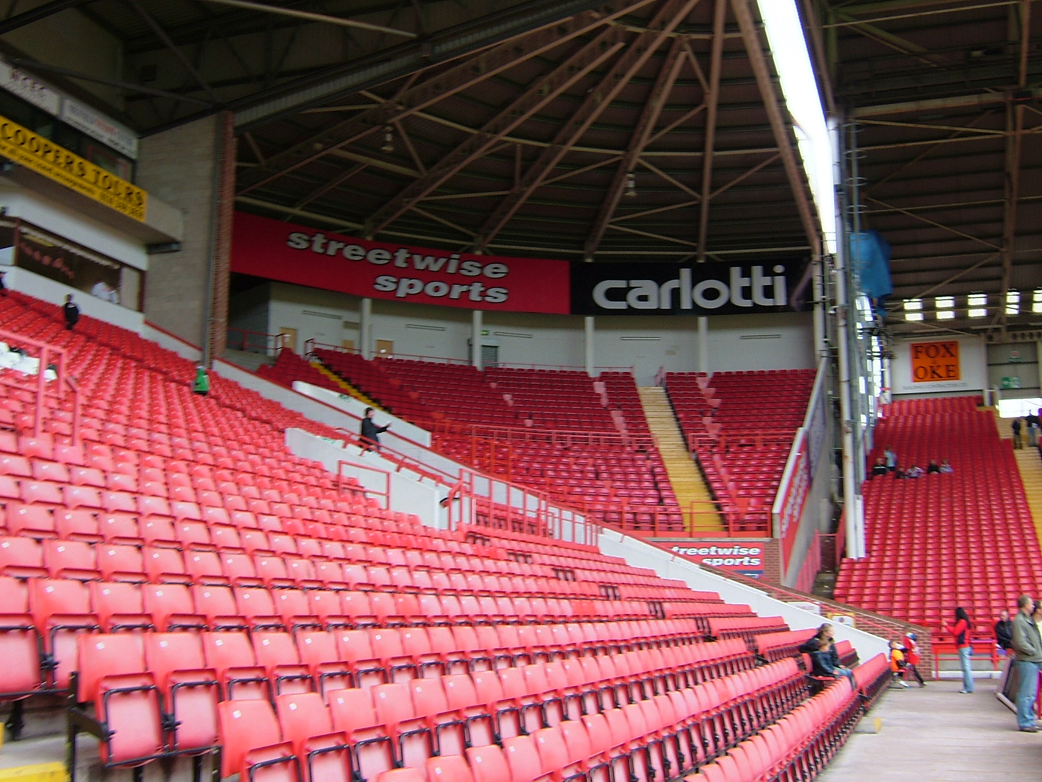 author:Lewis Skinner source:self made